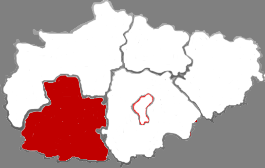 Location of Yangcheng county in Jincheng City, China